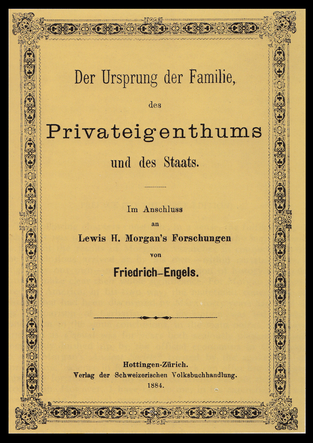 Cover of the 1st Edition of Frederick Engels' The Origin of the Family, Private Property and the State.